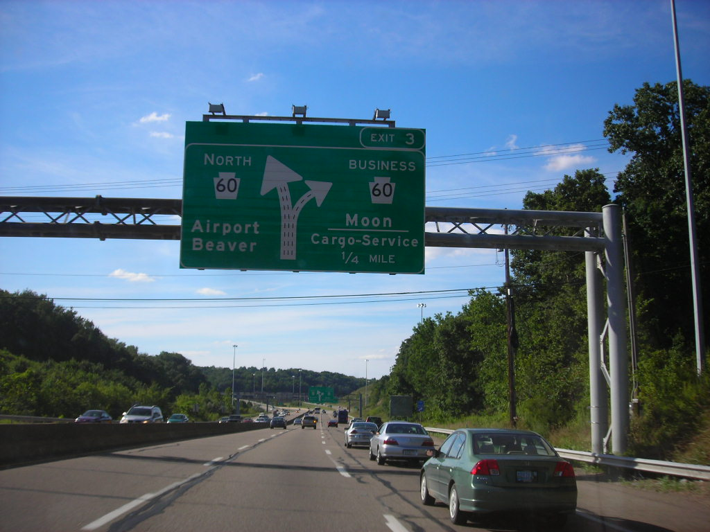 Approaching Pennsylvania Route 60 Business on Pennsylvania Route 60 northbound near Pittsburgh International Airport. On November 6, 2009, this section of PA 60 became Interstate 376 and PA 60 Business became Business Loop I-376.